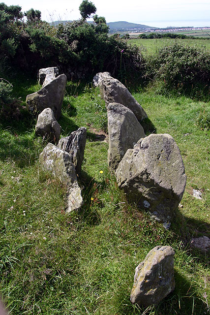 Giant's Grave. Not to be confused with the Giant's Grave near Tynwald Hill, this one is at The Kew. It's thought to be a Bronze Age burial cairn.